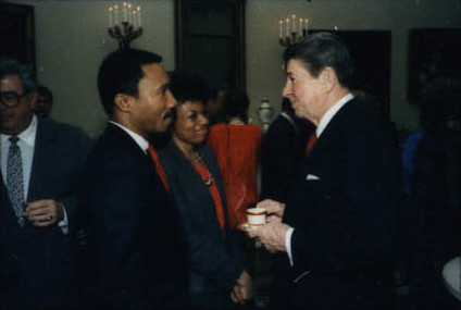 President Ronald Reagan, Nancy Reagan, Kweisi Mfume, and Ruth Simms, (Not in all Photos) (0-34A) Dinner for newly elected members of the 100th Congress